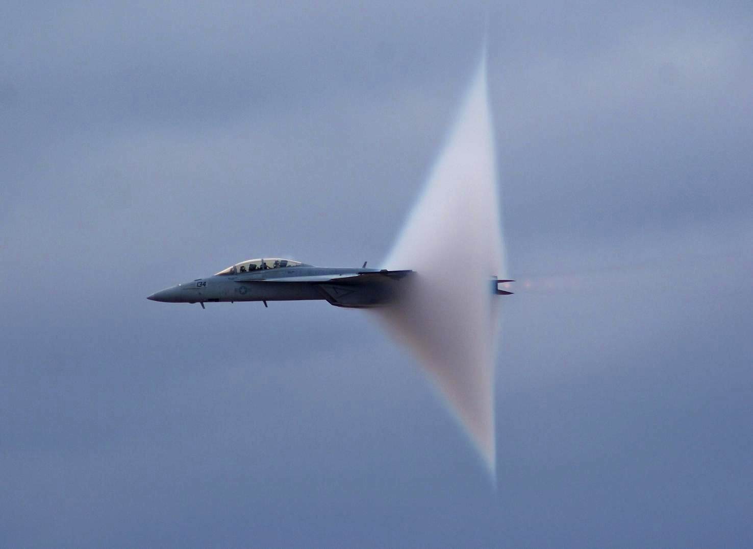 F/A-18F Super Hornet of VFA-122 Flying Eagles flying close to the speed of sound at the 2008 MCAS Miramar air show.